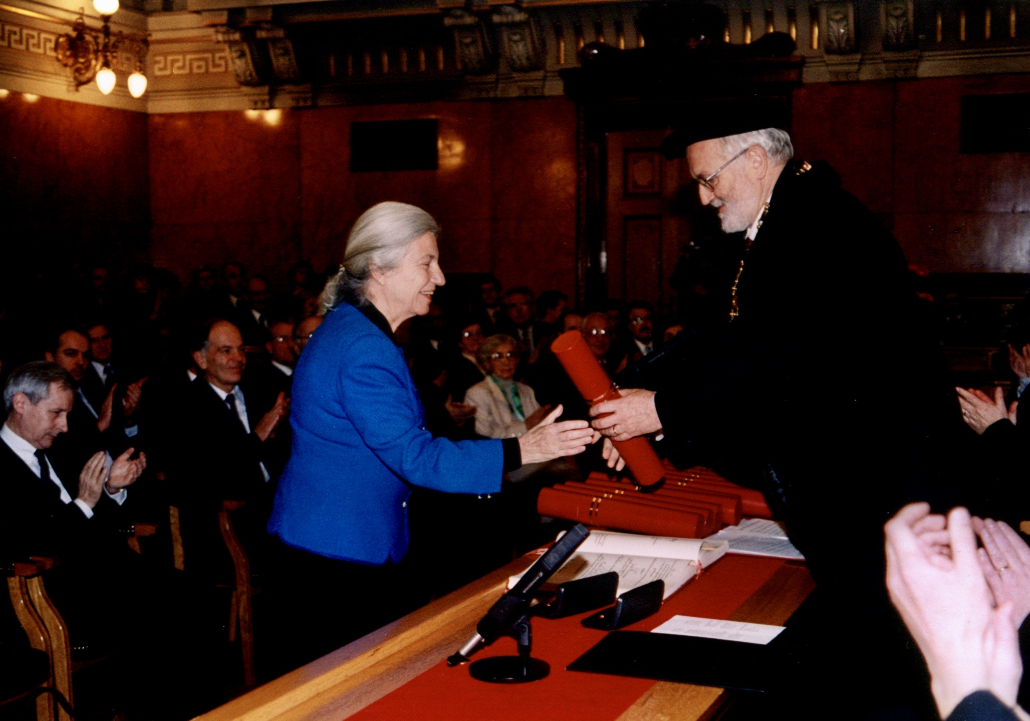 Prof. dr. Ruzena Bajcsy receiving a honorary doctorate from the Rector of the University of Ljubljana prof. dr. Jože Mencinger on 4 December 2001 at University of Ljubljana.